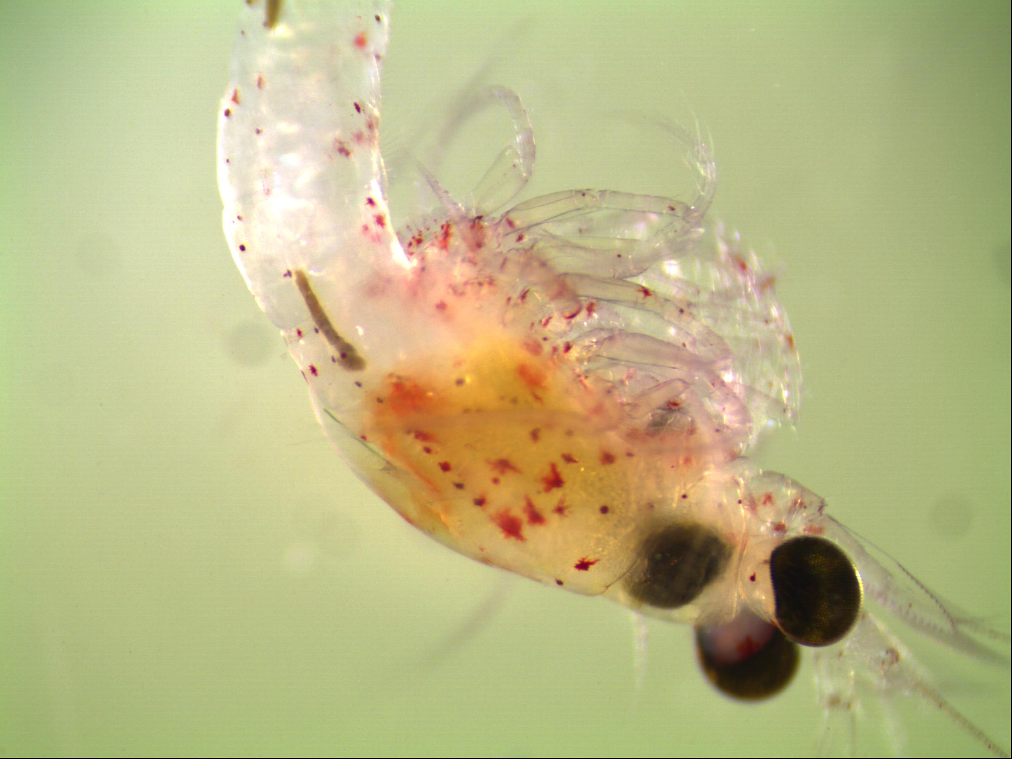 Hemimysis anomala,bloody-red mysid